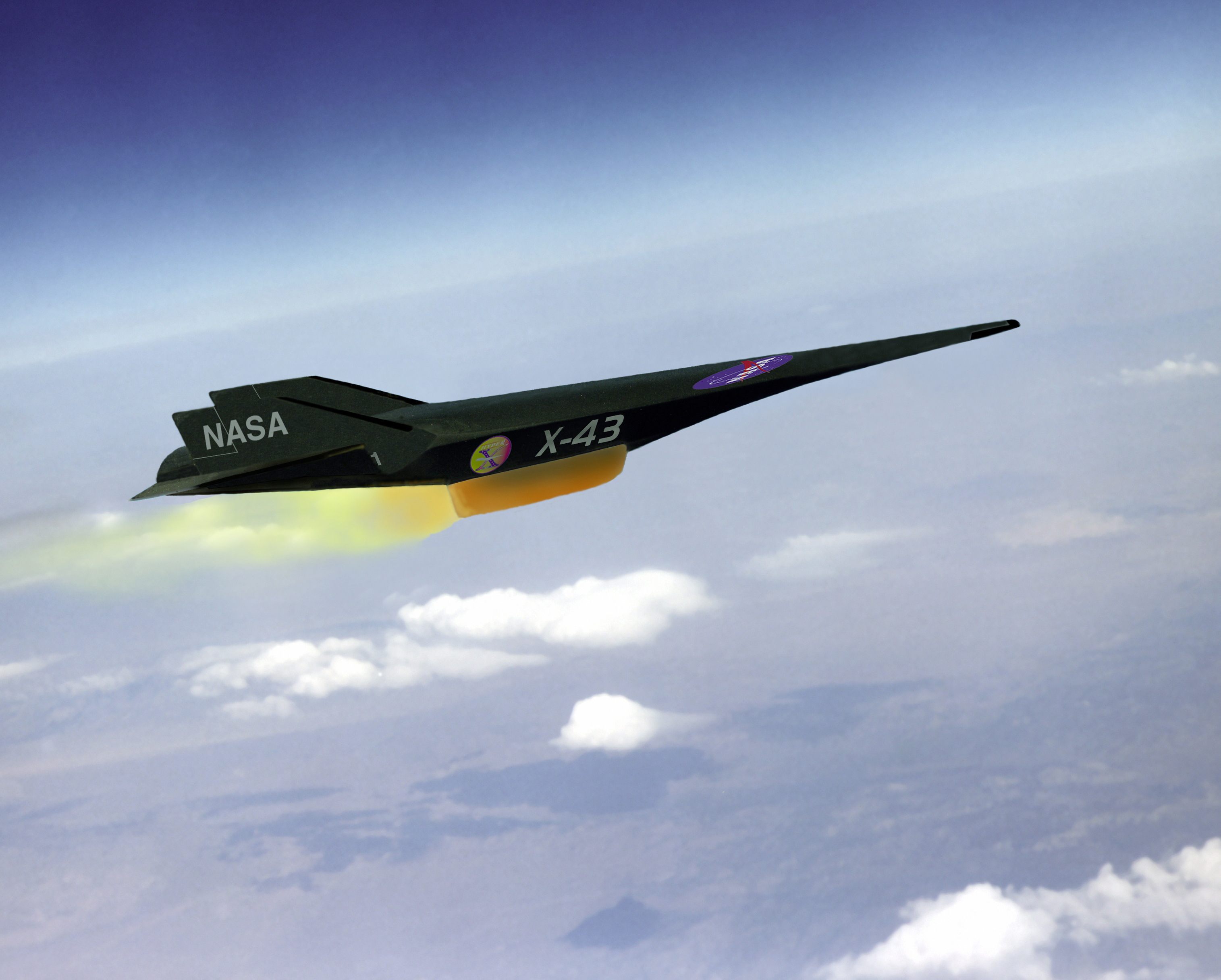 An artist's conception of the X-43A Hypersonic Experimental Vehicle, or "Hyper-X" in flight. The X-43A was developed to flight test a dual-mode ramjet/scramjet propulsion system at speeds from Mach 7 up to Mach 10 (7 to 10 times the speed of sound, which varies with temperature and altitude).